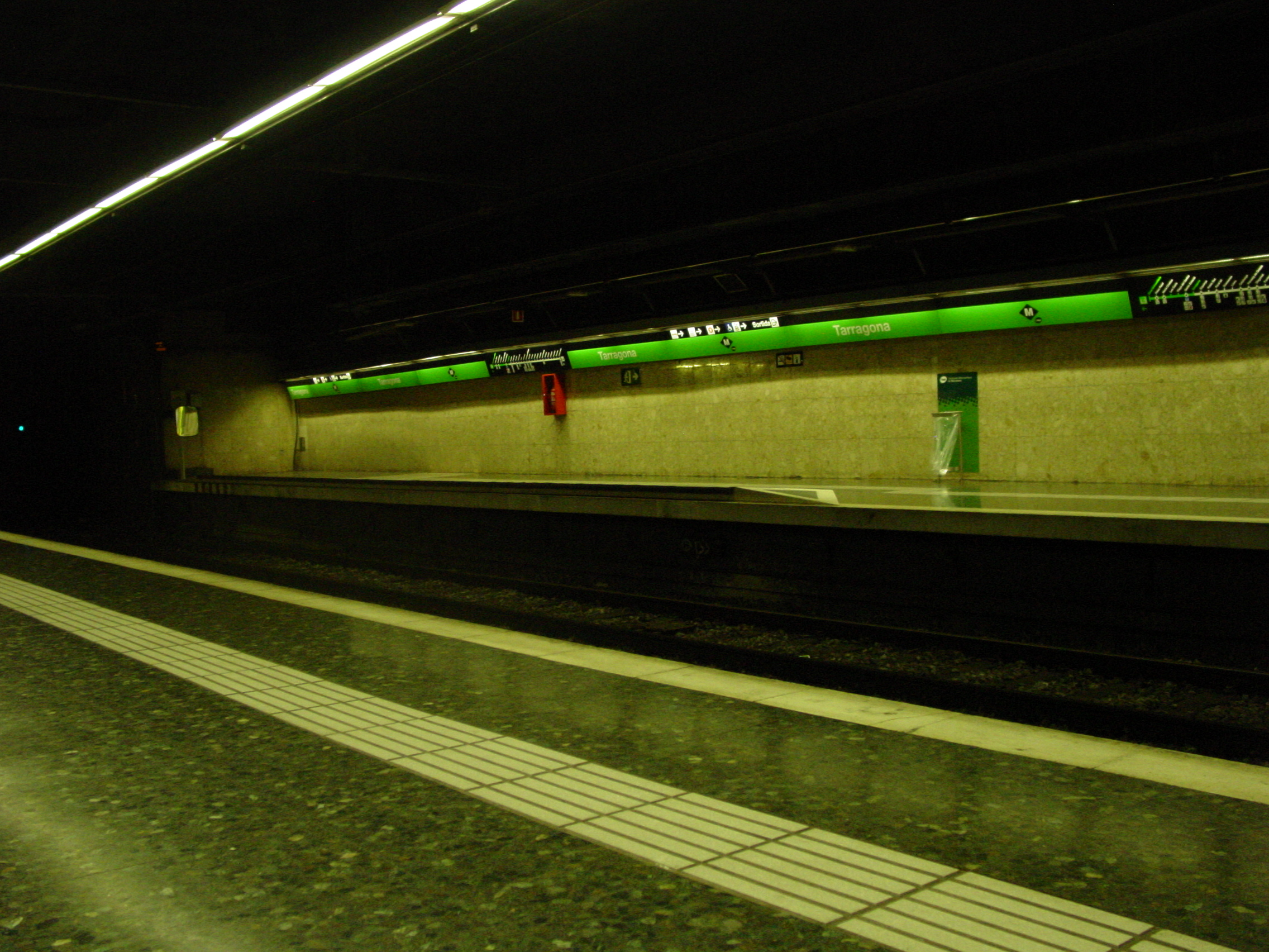 Platform view of Tarragona station, Barcelona Metro line 3. 3.9.2013